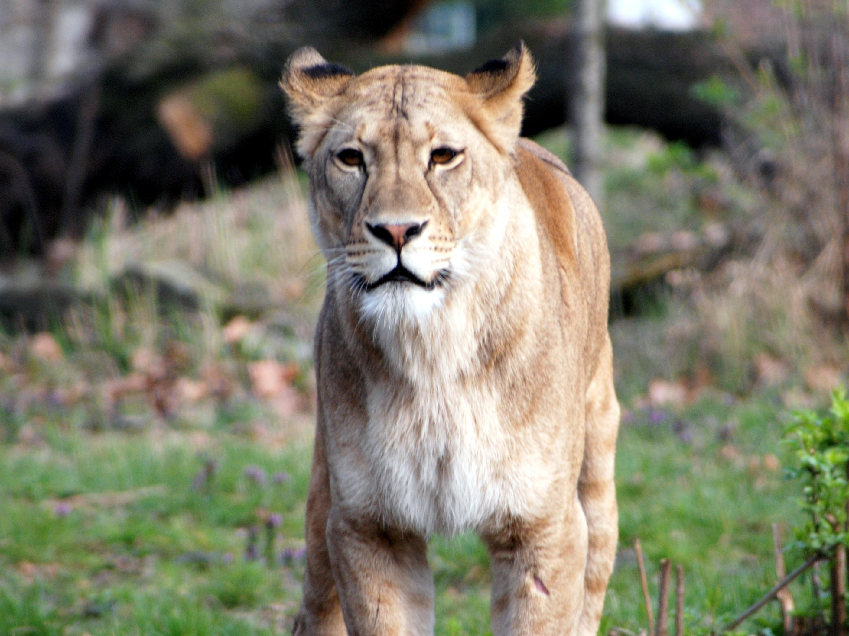 A Lion in the Zoo Berlin.